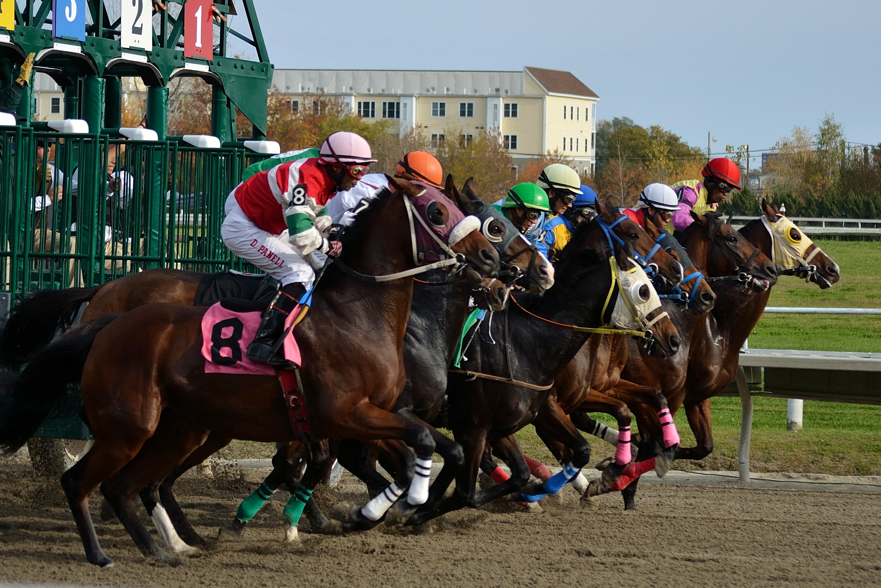 Start of the 5th Suffolk Downs October 27, 2012